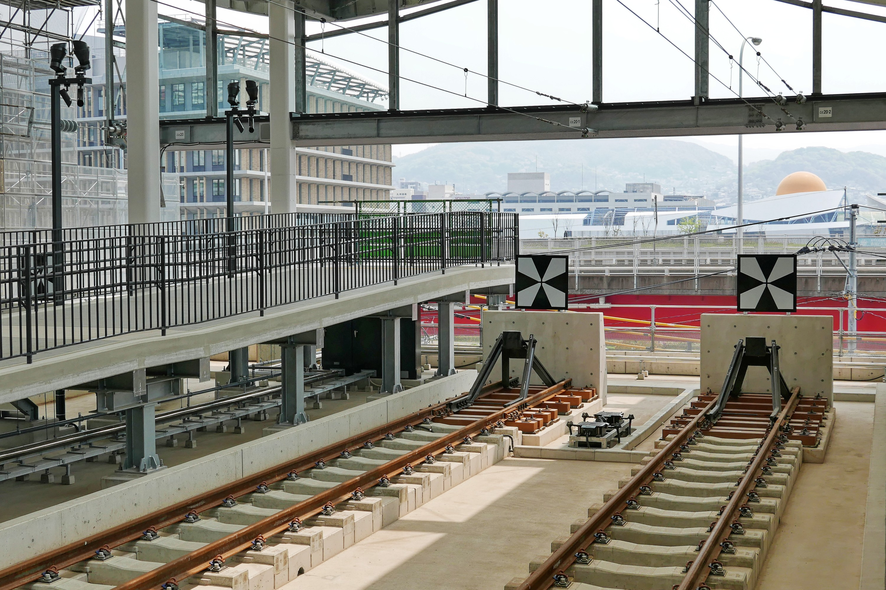 Nagasaki Station.